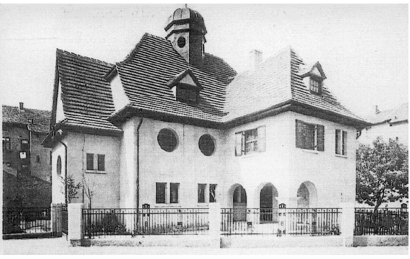 Synagogue in Arnstadt in Thuringia, built in 1913 burnt by the nazis during Kristal nacht